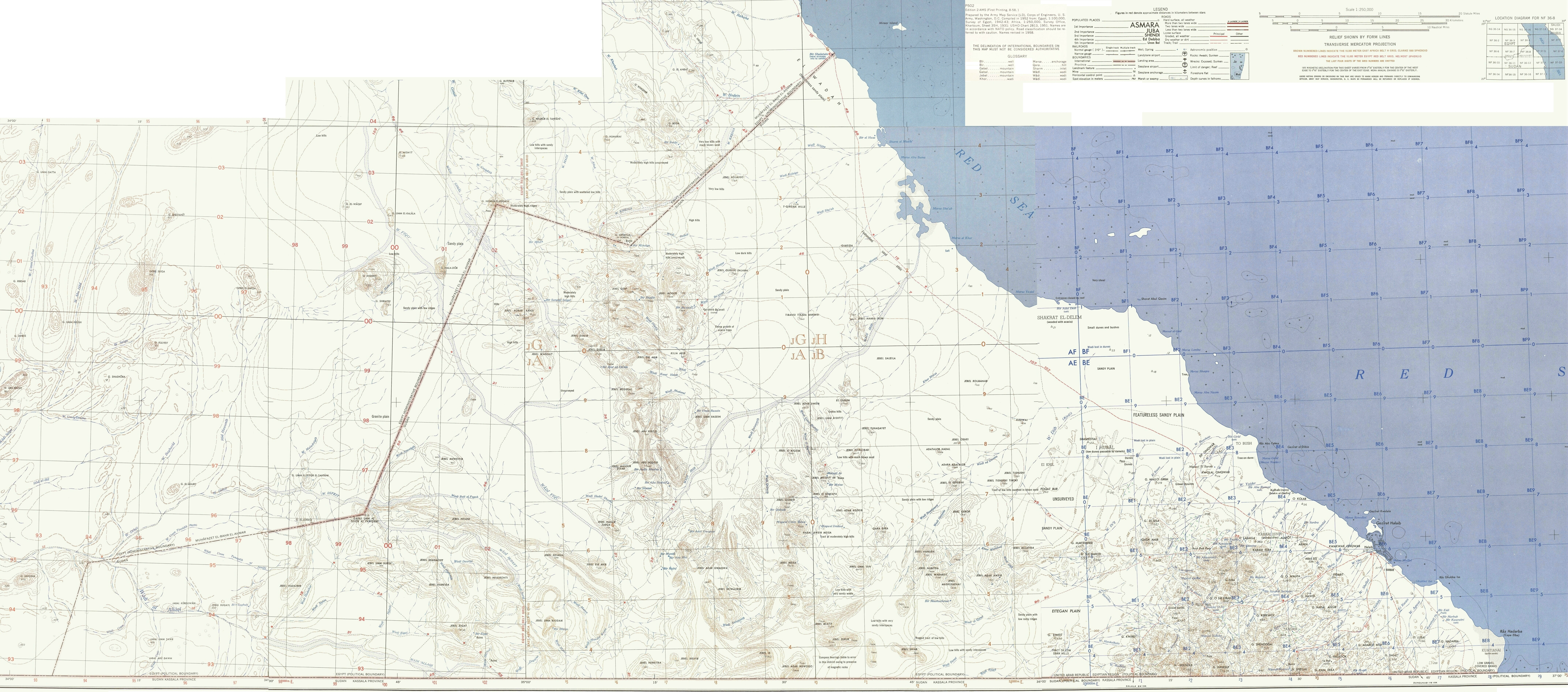 Map of the Hala'ib triangle